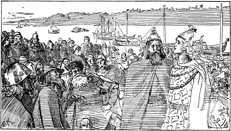 Christian Krogh: Illustration for Håkon den godes saga, Heimskringla 1899-edition.